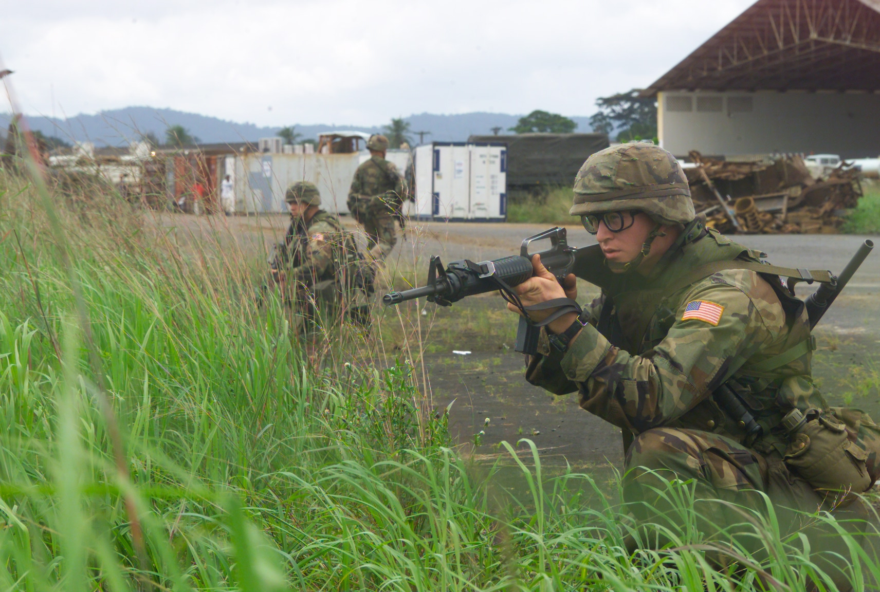 U.S. Marines from 26th Marine Expeditionary Unit (Special Operations Capable) secure Roberts International Airport in Liberia during the Second Liberian Civil War. 26th MEU(SOC) participated in Joint Task Force Liberia. Photograph taken August 18, 2003.